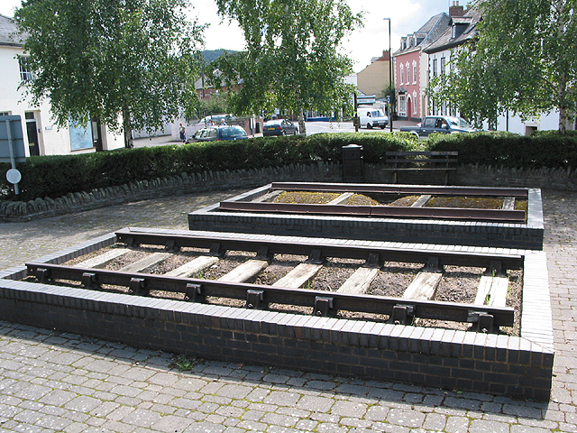 Samples of railway tracks at Fiveways, near to Ross-on-Wye, Herefordshire, Great Britain. The front shows an example of bull-head railway and the rear, an example of Barlow rail. This is part of an interesting and informative display at a previously notorious accident blackspot where 5 roads meet. Double mini roundabouts now improve the traffic flow in this area.